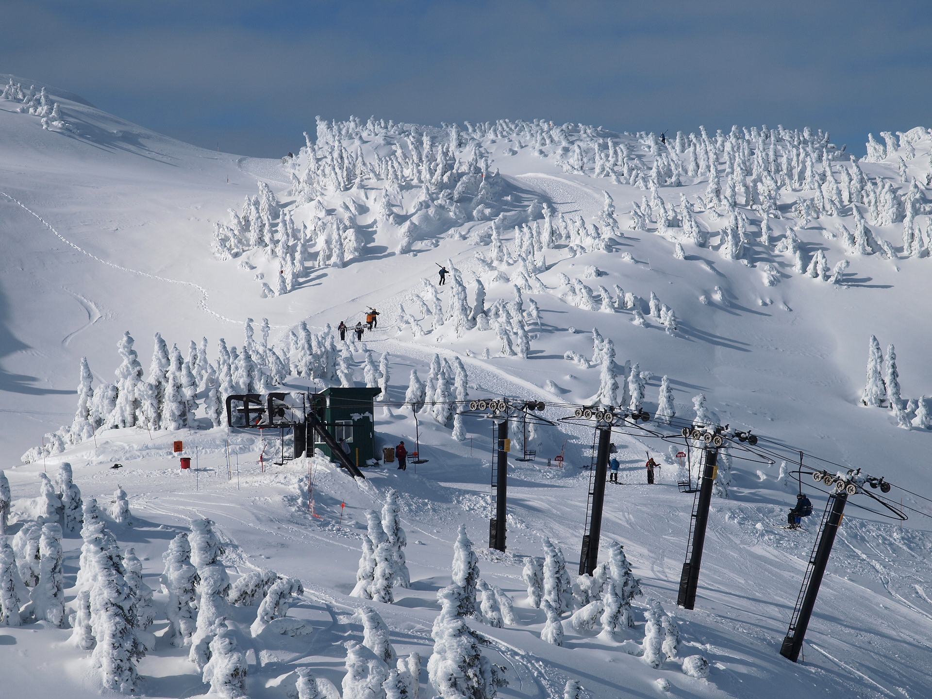 This is the top terminal of the Black Bear Chair at the Eaglecrest Ski Area, Douglas Island, Alaska